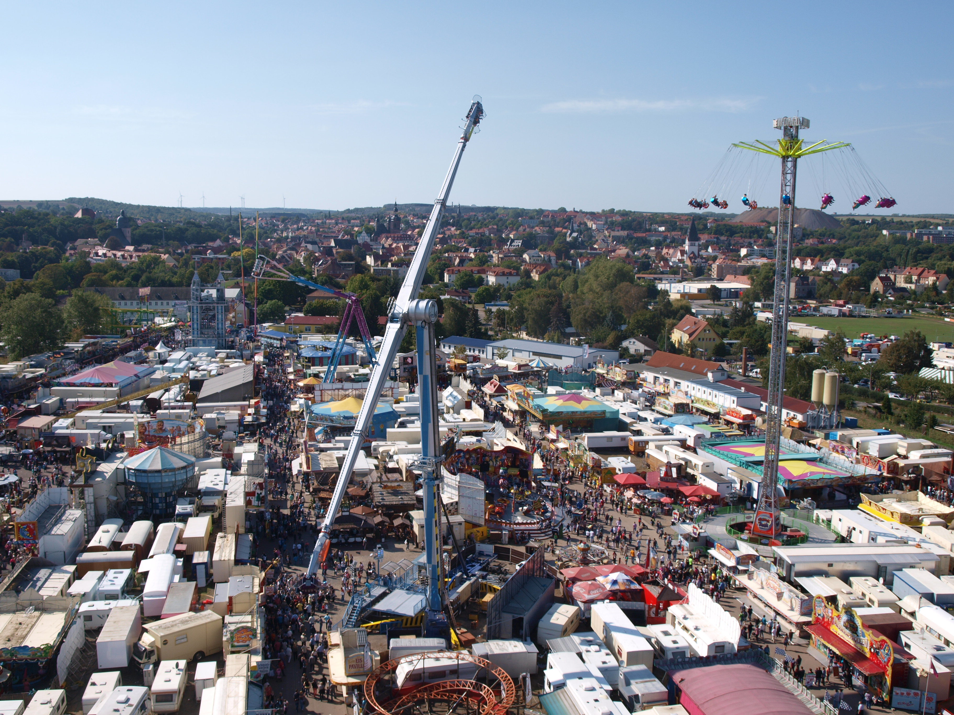 491. Eisleber Wiesenmarkt 2012 - Blick Teile des Platzes mit Blick über das Mansfelder Land Urheber: Lars Dührsen (Absolut Wiesenmarkt) Rechtsinhaber: Absolut Wiesenmarkt ( namentlich: Lars Dührsen, Matthias Kuhn